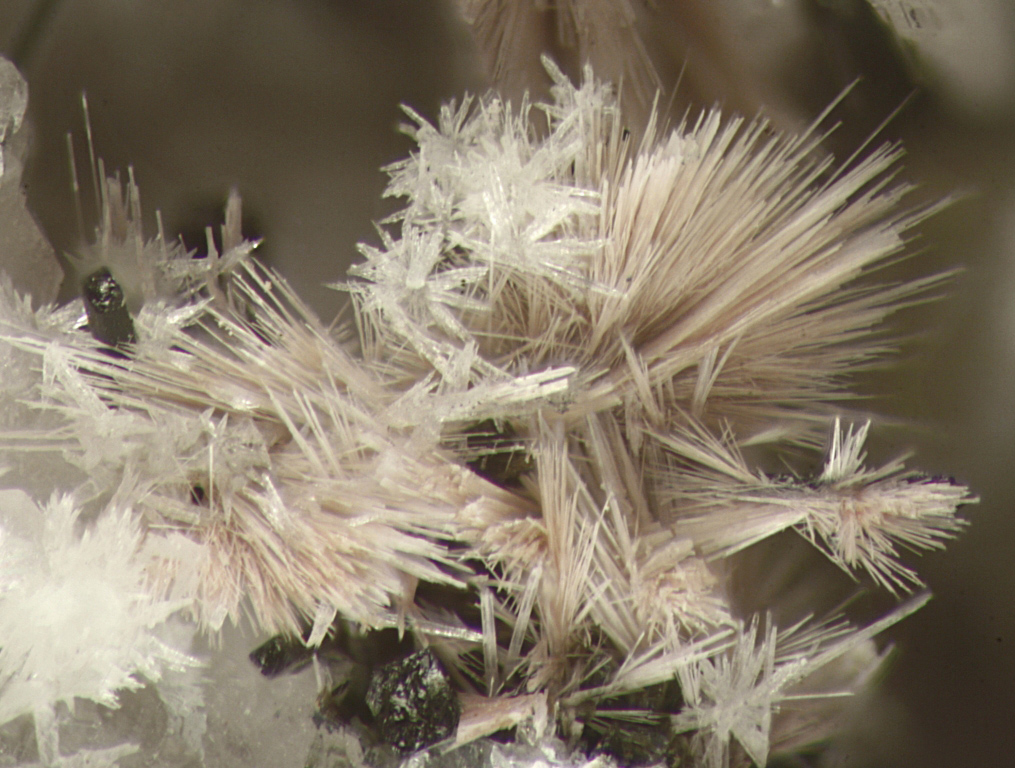 Lorenzenite (FOV 2.9 x 2.2 mm) Locality: Poudrette quarry (Demix quarry; Uni-Mix quarry; Desourdy quarry; Carrière Mont Saint-Hilaire), Mont Saint-Hilaire, Rouville RCM, Montérégie, Québec, Canada The pale pink acicular xls are the lorenzenzenite. (I don't know what the other acicular sprays are.) This is from an igneous breccia and was associated with kukharenkoite, leucosphenite, etc.